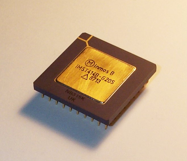 INMOS IMS T414B-G20S transputer chip.